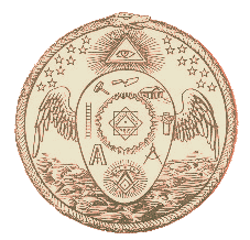 Масонство, Мемфис Мицраим